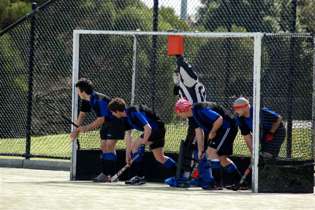 Players prepare to defend a short-corner attack.